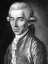 Jean-Guillaume Bruguière (1749/1750–1798)